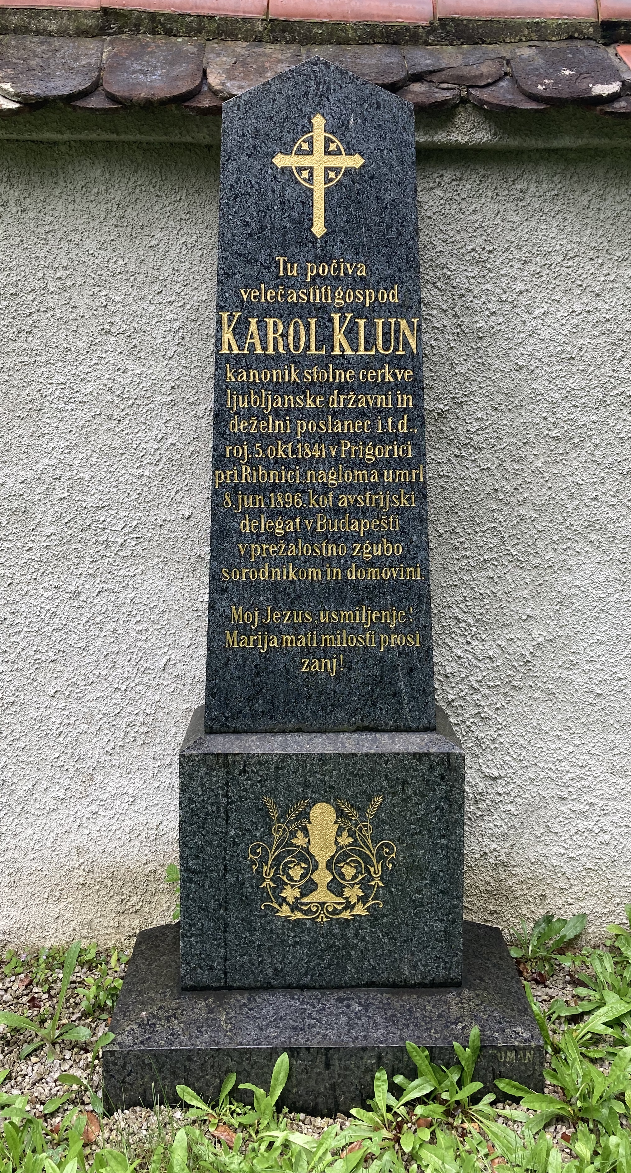 Tombstone of Karel Klun, a Slovenian priest and politician at Navje in Ljubljana